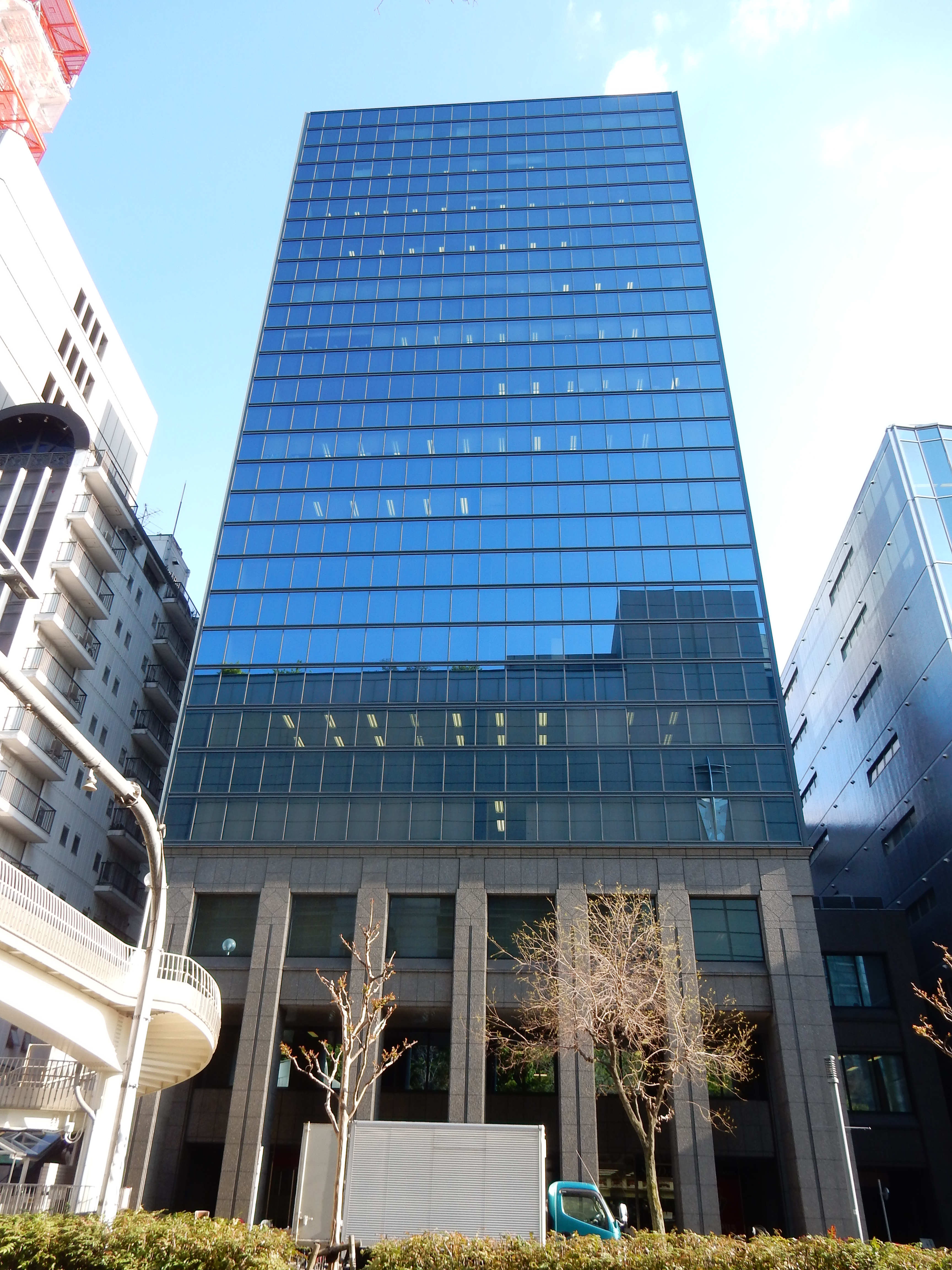 Bantane Sakae Building (坂種栄ビル), located at 2-4 Shinsakae, Naka, Nagoya, , Japan